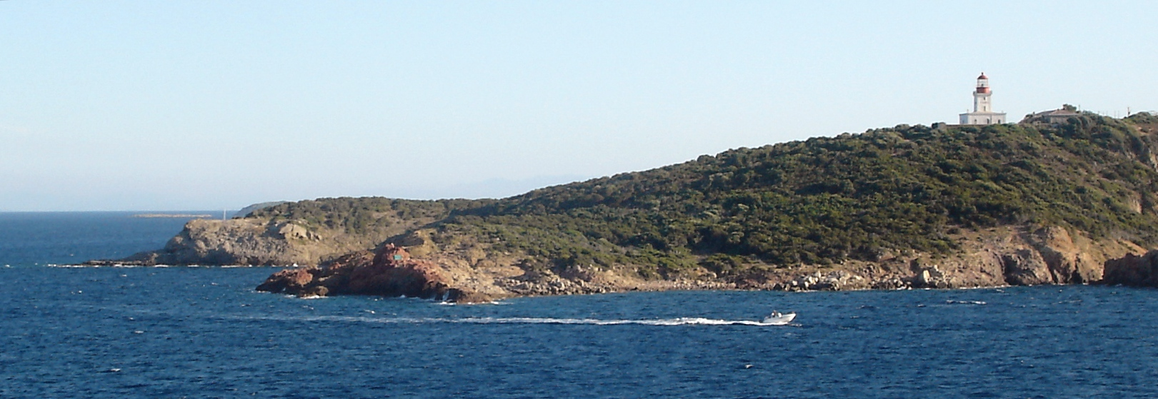 Cape Chiappa and lighthouse of Chiappa, near Porto-Vecchio (Corse-du-Sud).